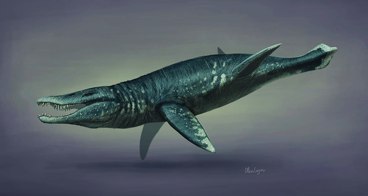 Pliosaurus restoration 2019 By Mario Lanzas